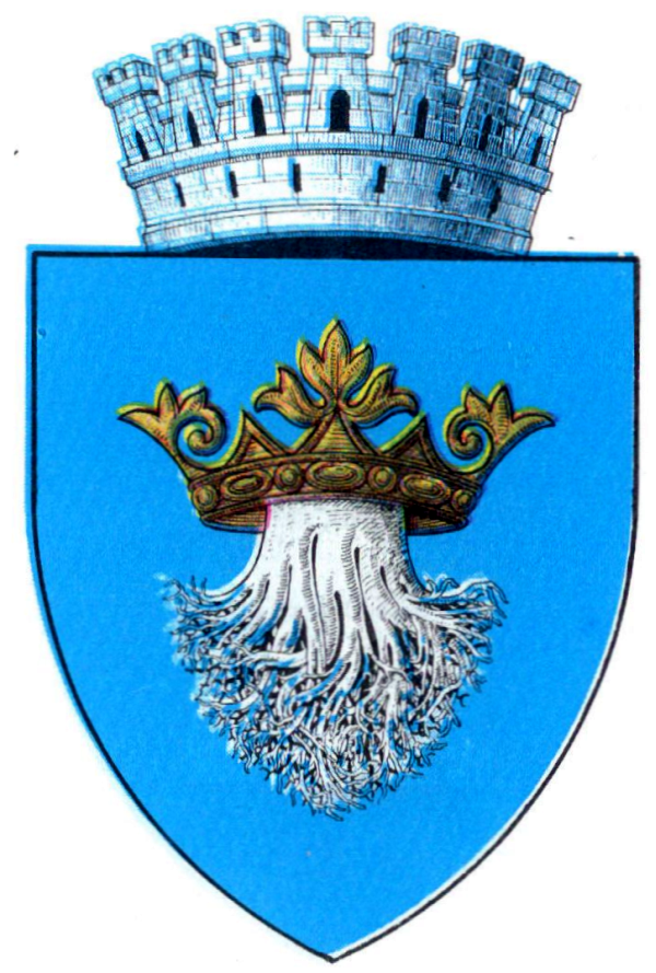 Interwar coat of arms of Brașov, Brașov County, Kingdom of Romania.